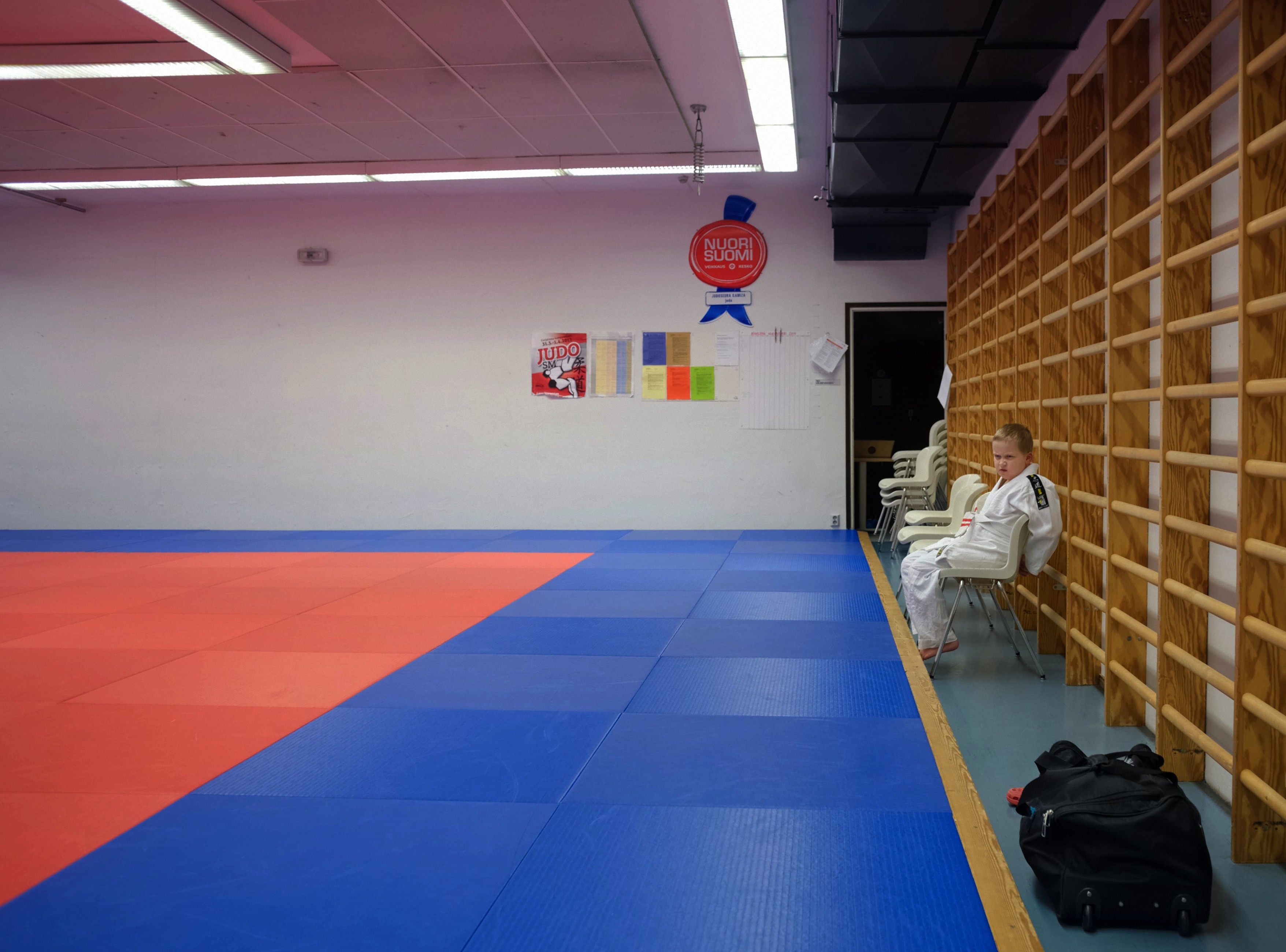 Nuori Suomi ("Young Finland") signet